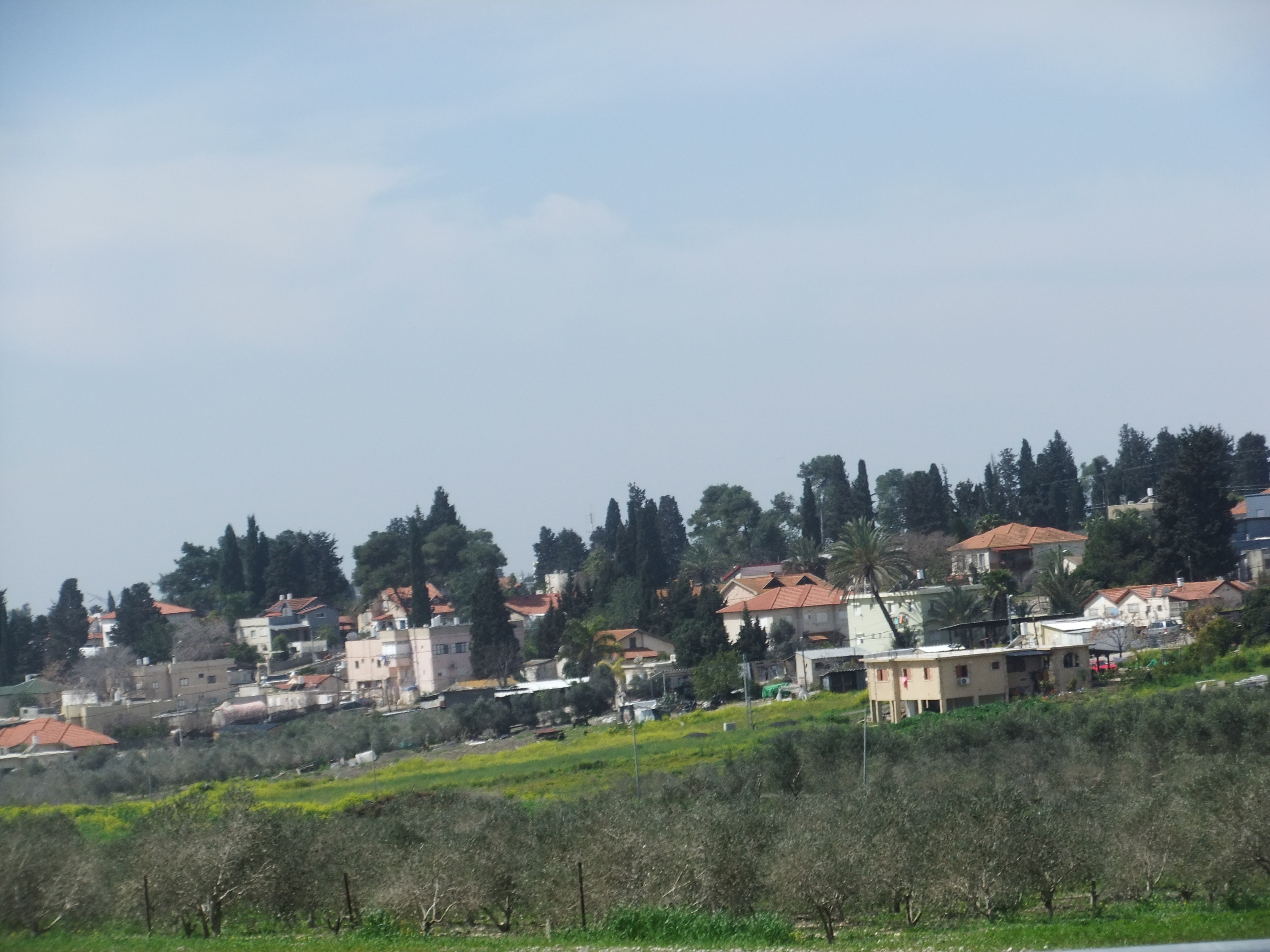 Elyakim